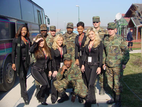 Wikipedia:Oakland Raiders Raiderettes visit Task Force Eagly U.S. Army Base in Bosnia, part of SFOR stabalization force. Posing with troops.